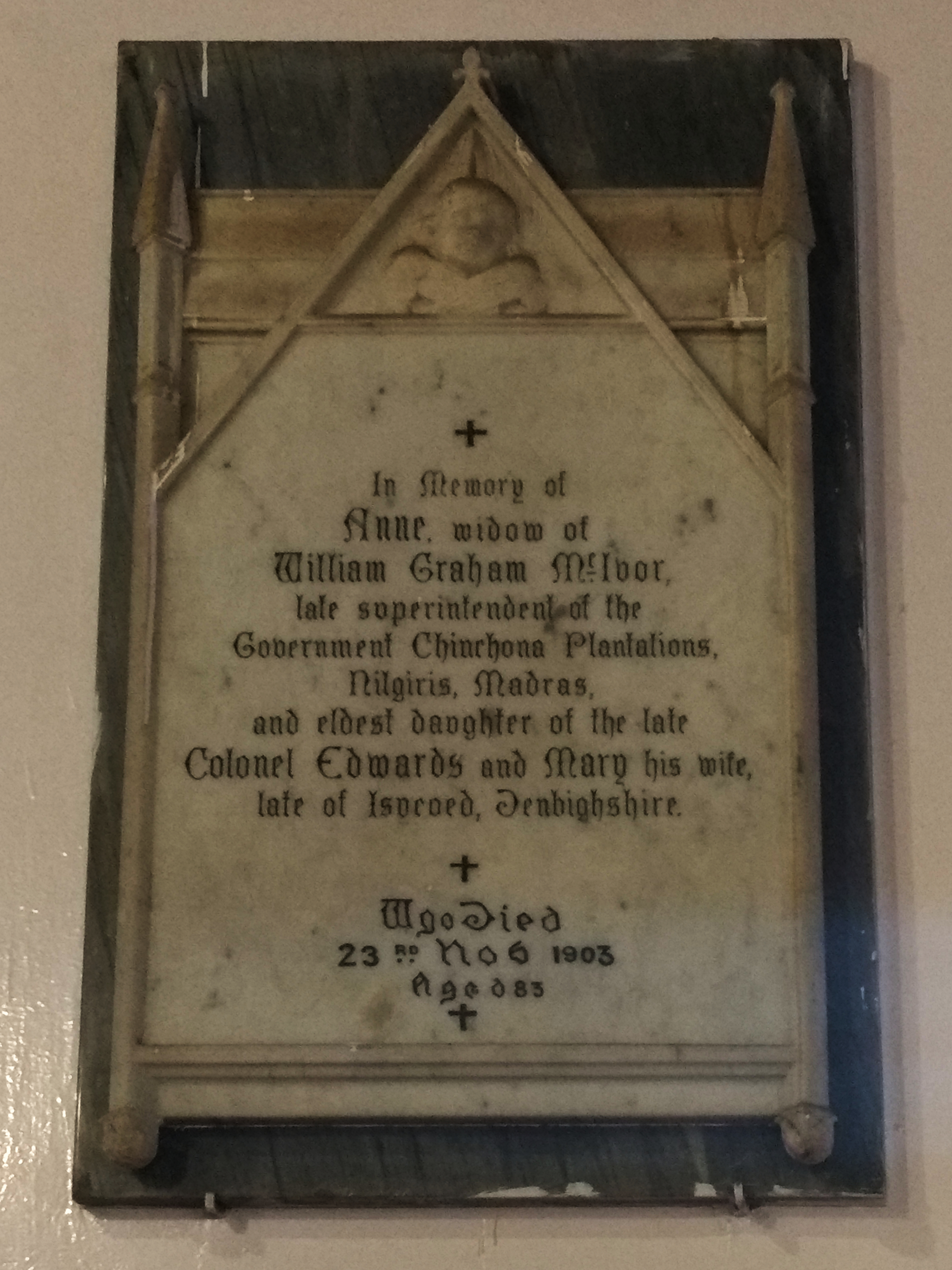 Memorial table to Anne McIvor at St Stephens church, Ootacamund, Nilgiris